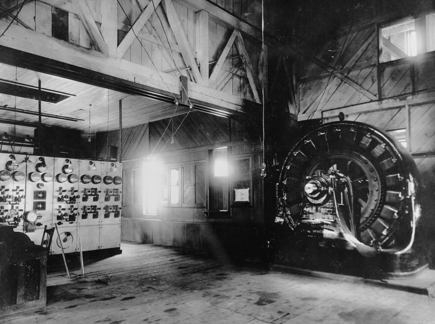 Ames Hydroelectric Plant, Ames vicinity, San Miguel County, CO INTERIOR VIEW (c.1900) OF 1895 POWER HOUSE SHOWING SWITCHBOARD ON LEFT AND GENERATOR ON RIGHT. HAER COLO,57-AMES.V,2A-6 Historic American Engineering Record photo URL